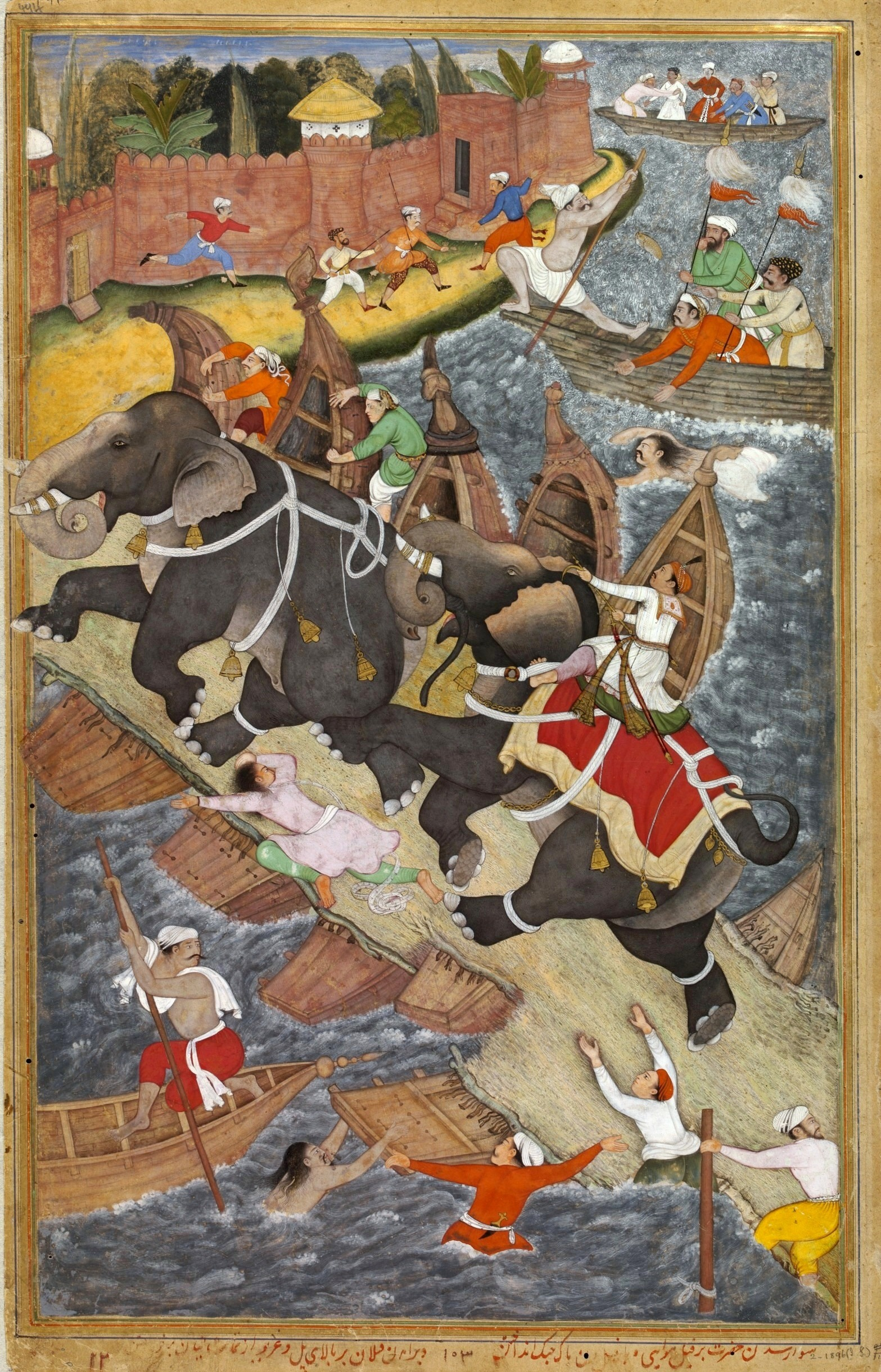 Basawan. Akbar Taming Mad Elephant Hawai. Composition by Basawan, coloring by Chitra. (left part) Akbarnama, ca. 1590, Victoria and Albert Museum, London